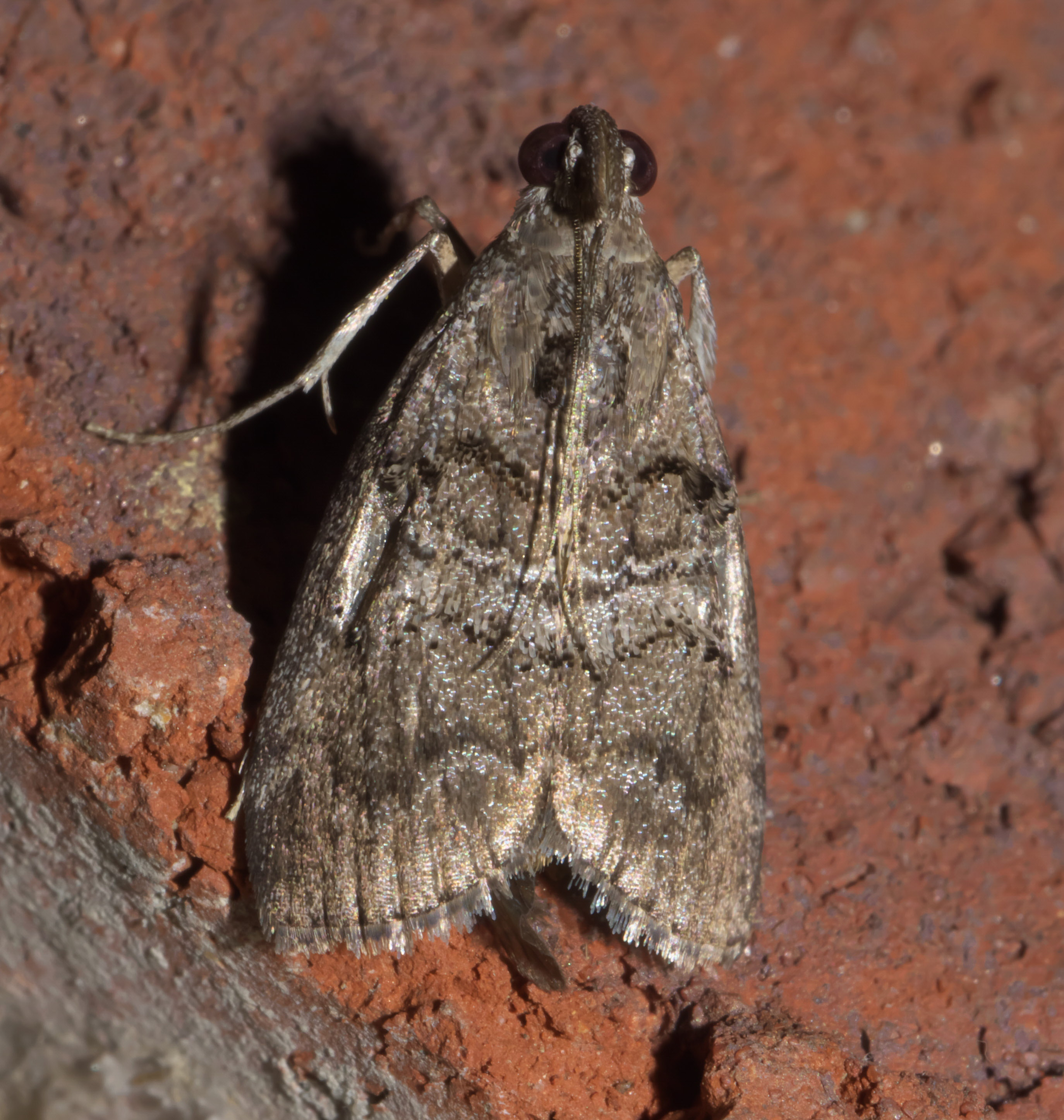 Pococera asperatella, maple webworm, ID Confidence: 88